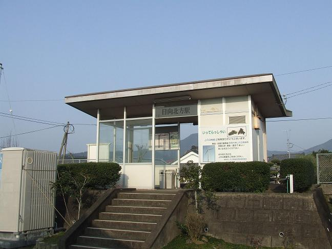 Hyuga-Kitakata Station on Nichinan Line, JR Kyushu